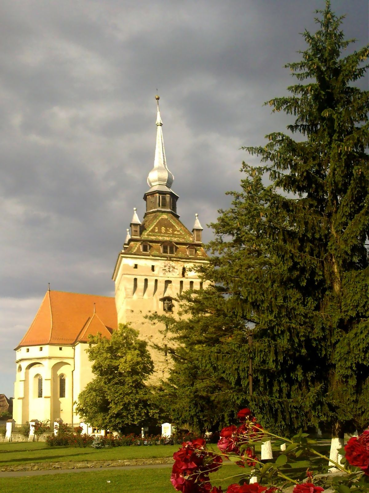 Evangelical-Lutheran Church, Saschiz, Mureş County, Romania